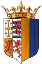 Coat of arms of Caterina Corner (Cornaro), Queen of Cyprus, Jerusalem and Armenia